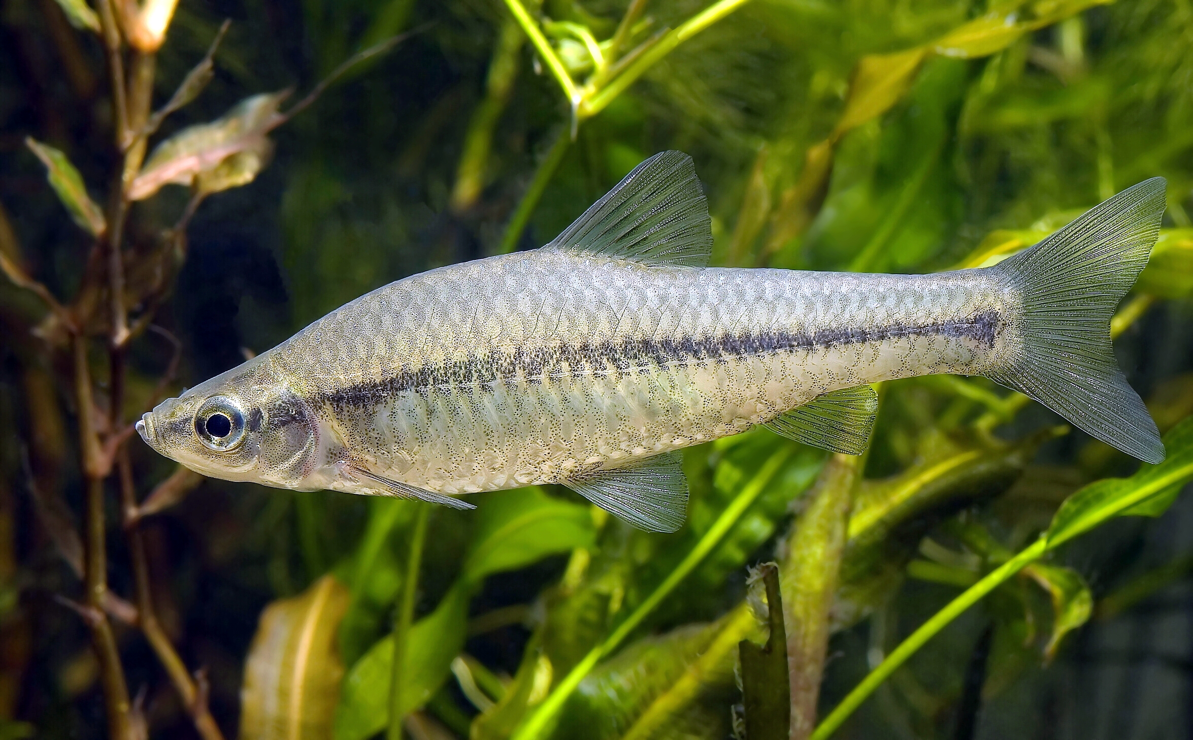 Motsugo(Stone moroko), Pseudorasbora parva, Collected from Hamamatsu, Shizuoka, Japan and later photographed an aquarium.